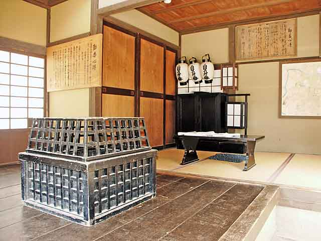 Banya, Jidaigeki set, Toei Uzumasa Studios, Kyoto, Japan 2002.